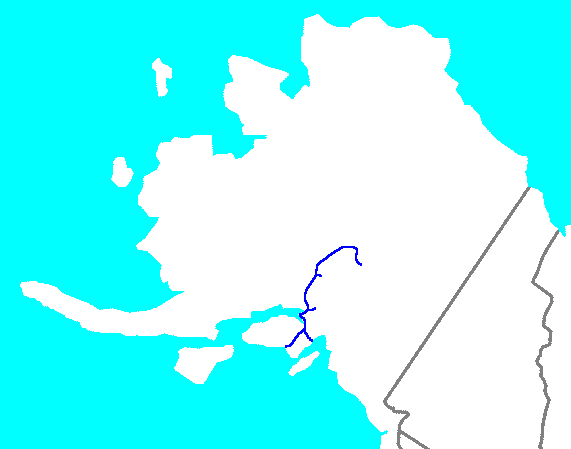 A map of Alaska, showing the rail network located there.